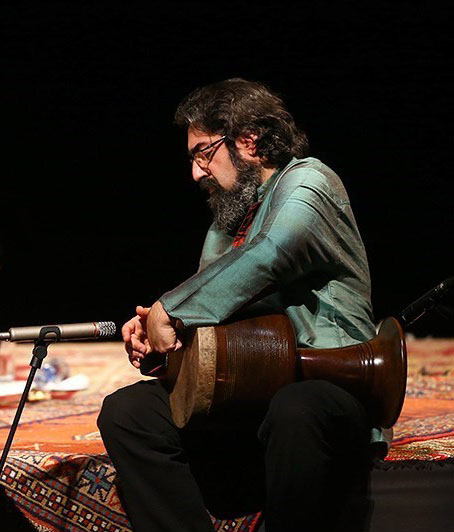 Navid Afghah presenting in Vahdat Hall.